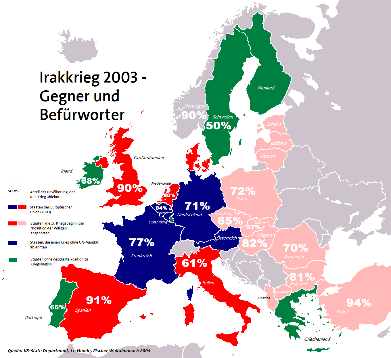 This map shows the European members of the "Coalition of the Willing"during the Iraq War in 2003. It also gives an overview of the share of population opposing participation in the military conflict.